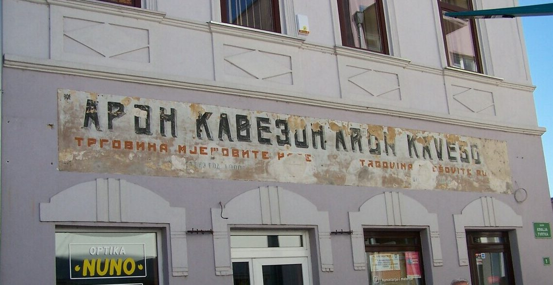 Bihac, House with name of jewish grocer Aron Kaveson. Last sign of former jewish life in Bihac